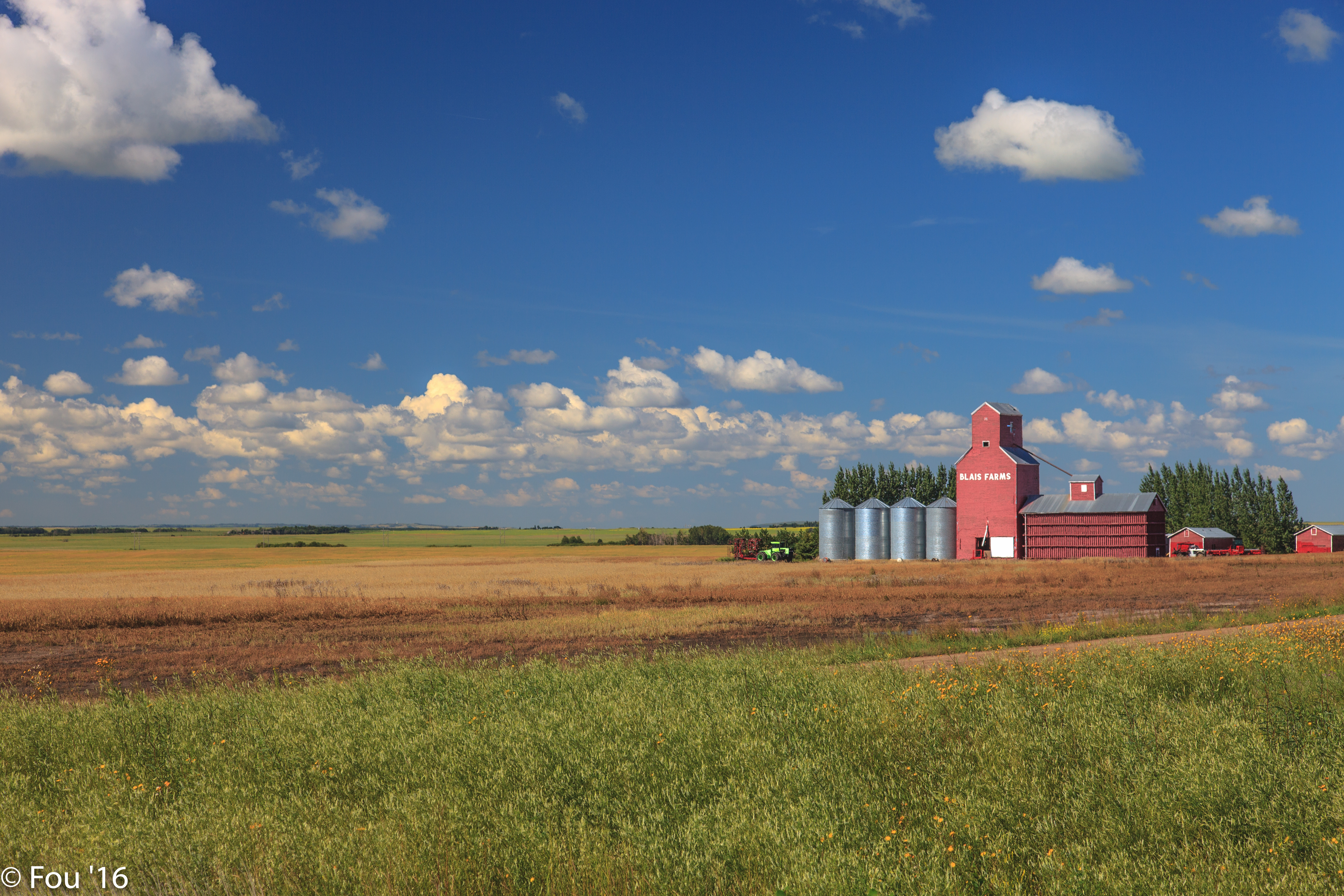 Former Federal Grain elevator that stood in Bresaylor, Saskatchewan, moved to a farm along Hwy 16..40..56..106 in the Saskatchewan prairies...